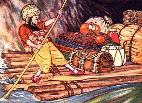 Cropped from The Arabian Nights Entertainments Author: Anonymous Illustrator: Milo Winter